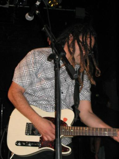 Joselo Rangel of the group Café Tacuba taken 08-2003 by fabioj.